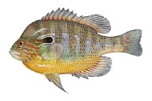 Drawing of a bluegill, Lepomis macrochirus